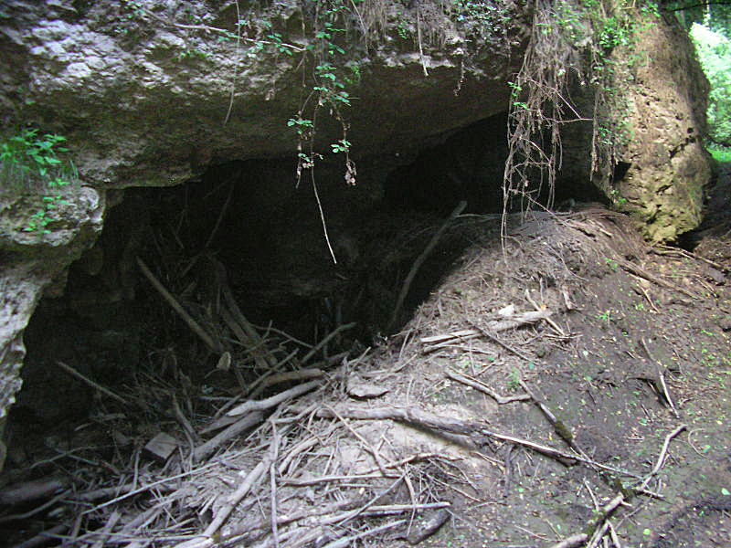 Last sink of the river Ouyssse at Thémines Lot France.